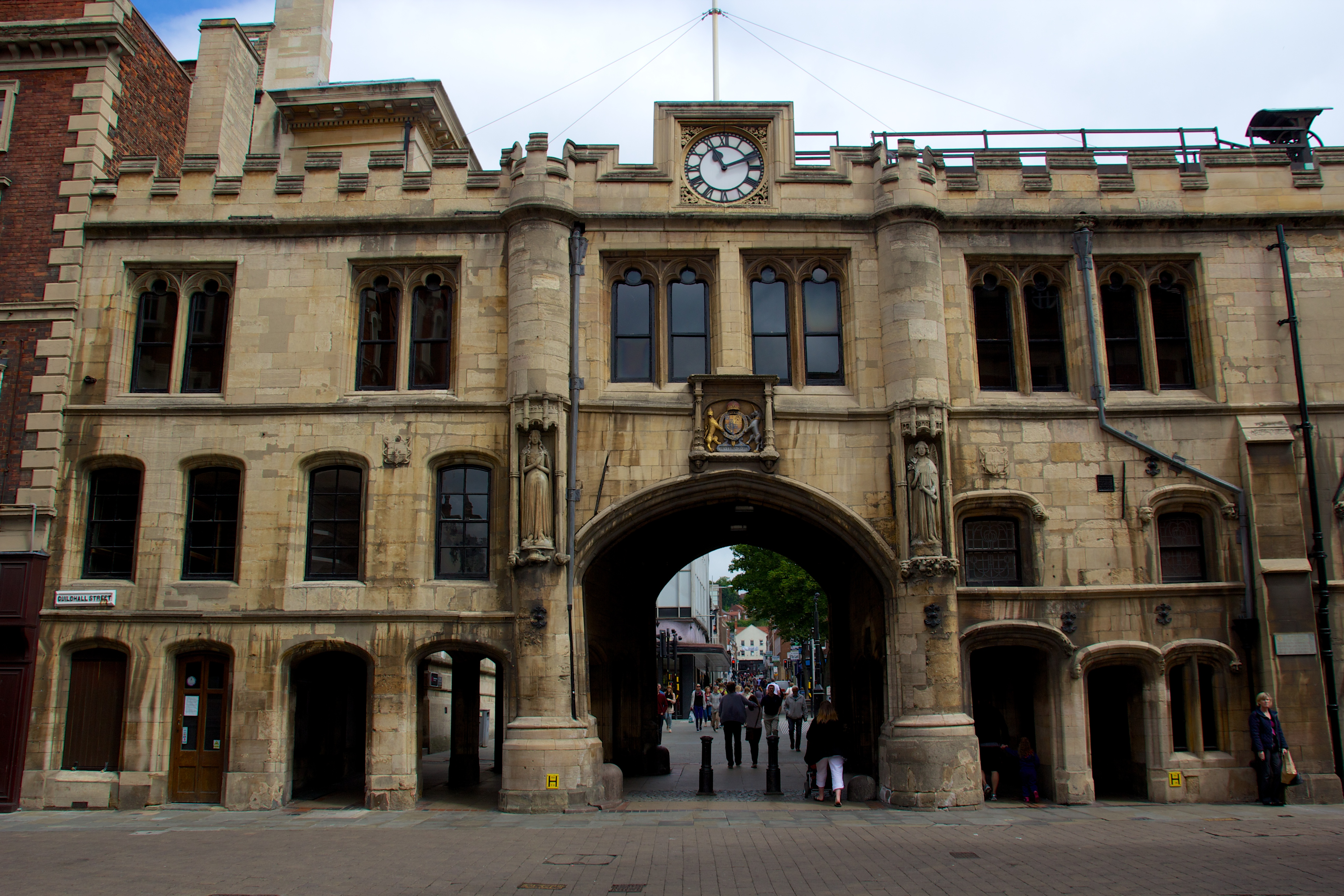 Guildhall and Stonebow , in Lincoln.